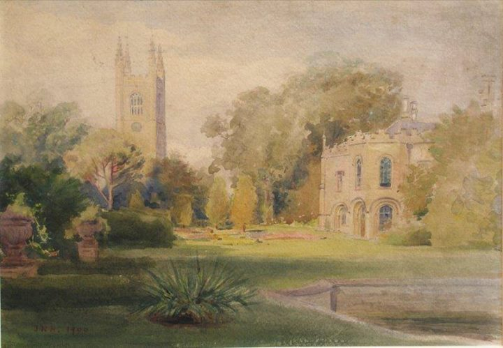 Watercolour of the grounds of Conington Castle, by John Norman Heathcote (1863-1946), painted in 1900. Conington Castle was owned by the Heathcote family from the 1750s. The castle itself was demolished in 1953 but the former stable block and butlers accommodation remain and have been turned into a family home called Conington House (information from Sawtry History Society)